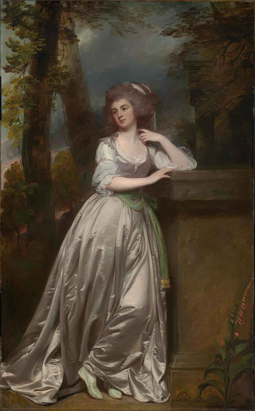 Portrait of Lady Anne de la Pole (nee Templer) (1758-1832). Sold by Sir Frederick Arundell de la Pole, 11th Baronet (1850-1926) at auction at Christie's London on 13th July 1913, purchased by the dealers Duveen Brothers of 720 5th Avenue, New York for $ 206,850, a record price for any work of art sold in London. (New York Times, 14/7/1913) Acquired by Alvan T. Fuller, Governor of Massachussetts, donated by Fuller Foundation to Museum of Fine Arts, Boston, USA, owner in 2012. Painted by Romney as pair with portrait of her husband Sir John William de la Pole (1757-1799), standing in hunting apparel, with hat and whip in his left hand, published in Turner, Maureen A., The Building of New Shute House 1787-1790, MA dissertation, University of Exeter, Sept 1999, plate 2.15, opp. p.53. & copy at Antony House, Cornwall